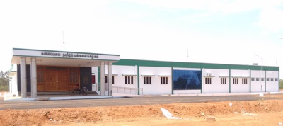 Tamil university tha shaped building தமிழ்ப்பல்கலைக்கழக த வடிவக் கட்டடம்